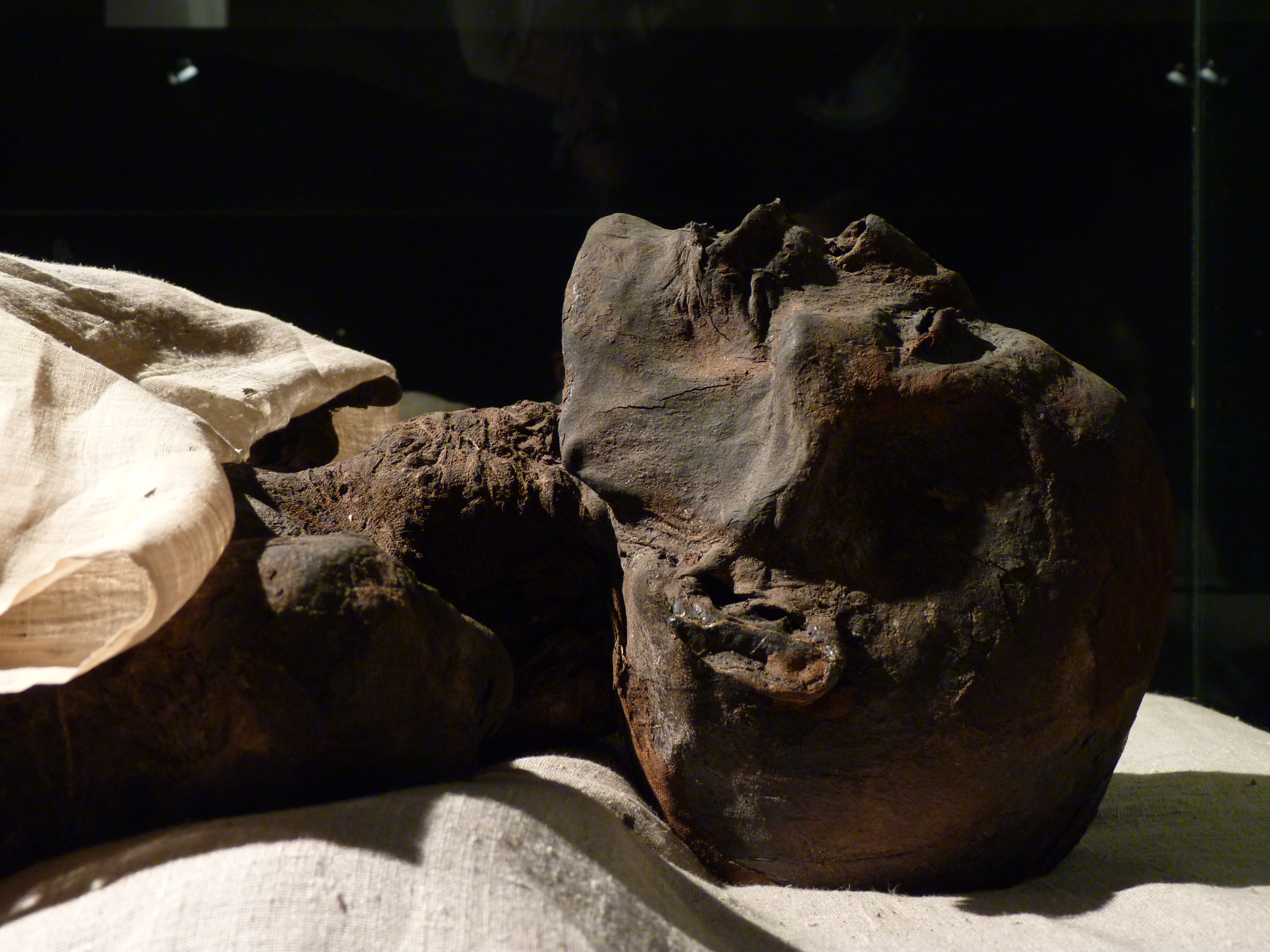 Photograph of Ramses I's mummy taken at the Luxor Museum in Luxor Museum, Egypt. July 2016. Taken with a Panasonic camera.